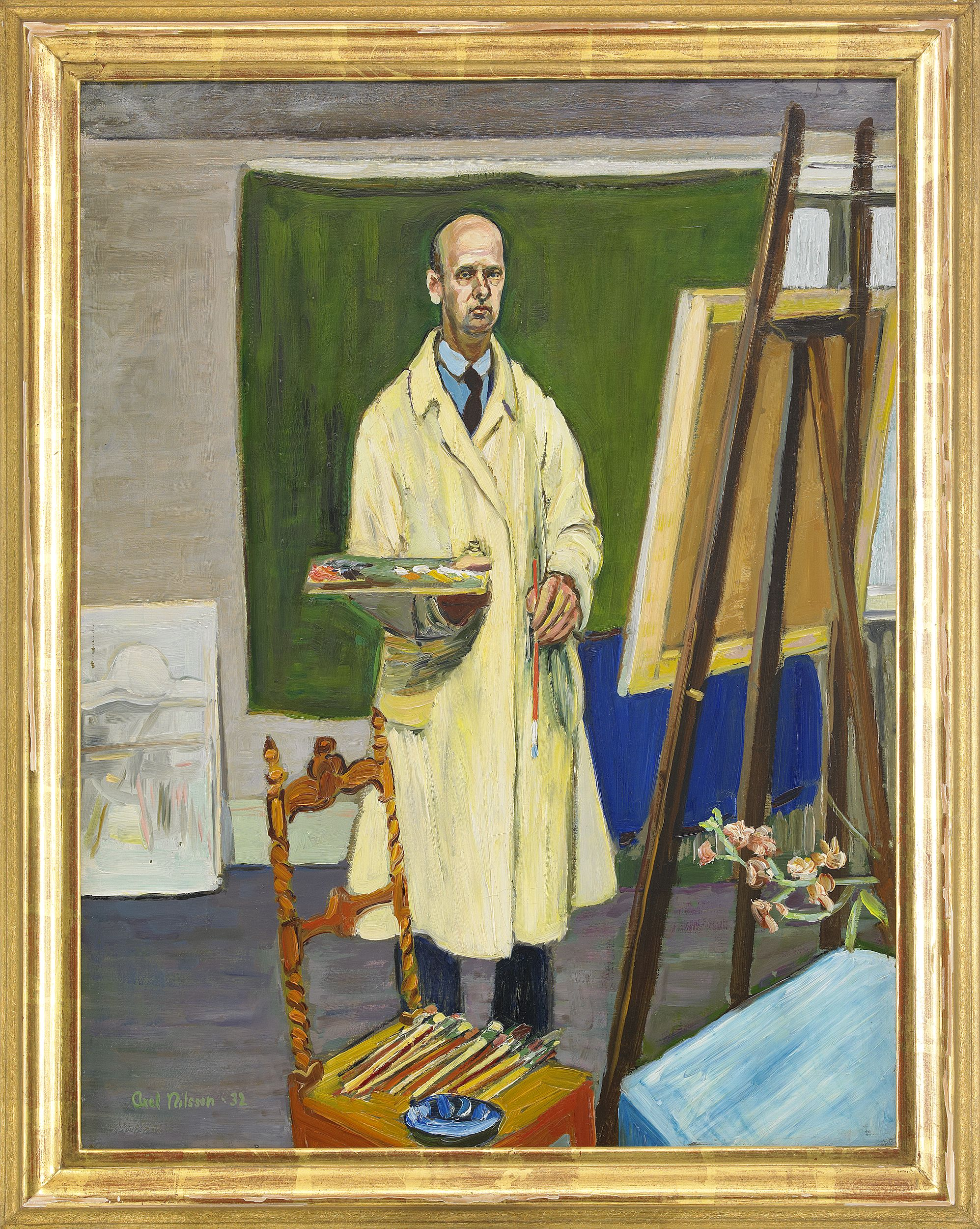 Självporträtt - interiör från konstnärens ateljé, 1932. Axel Elvin: Axel Nilsson, SAK 1970, jämför självporträtt fråm 1932 i Nationalmuseums samling, sidan 114